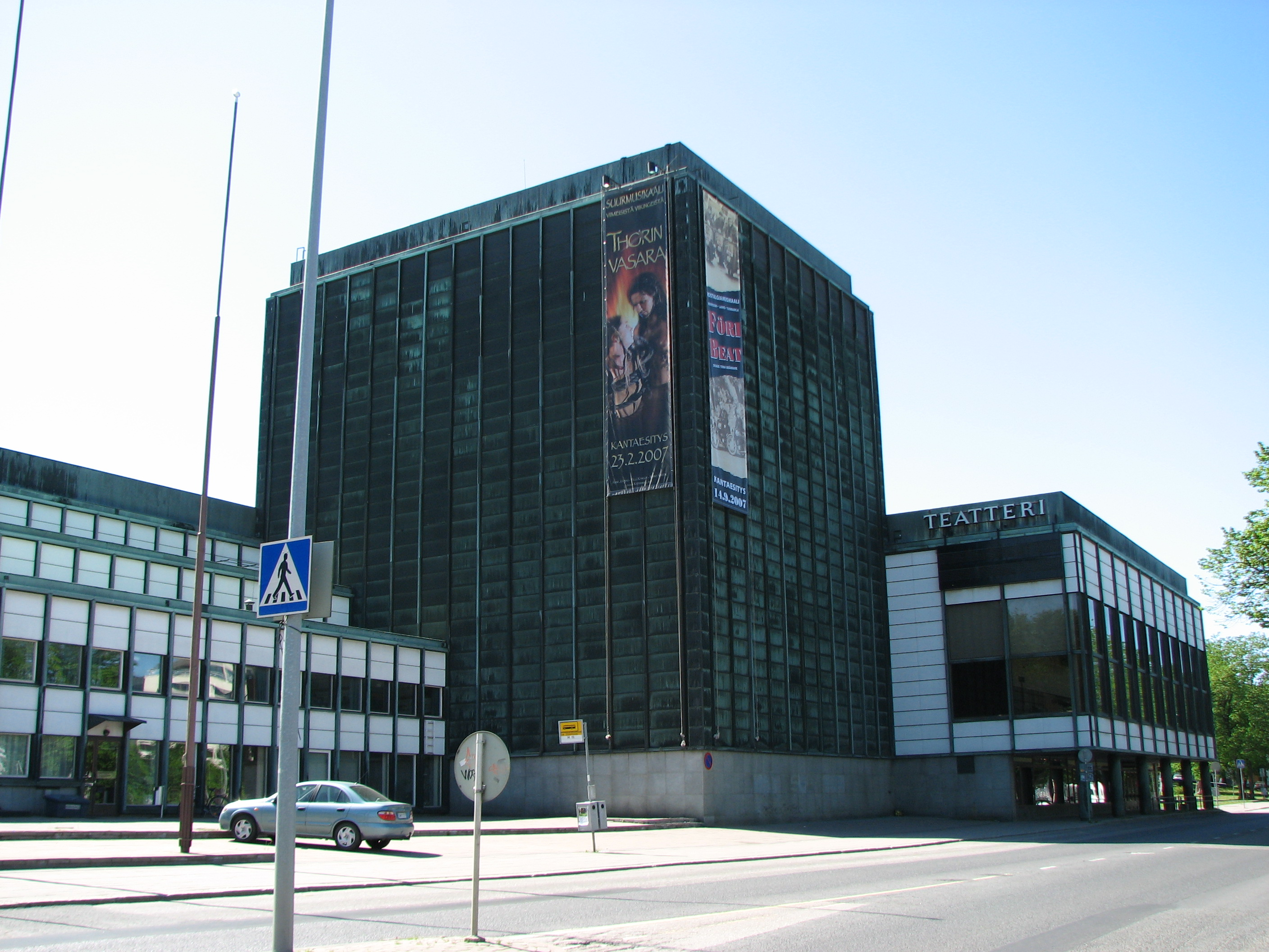 The Municipal Theatre of Turku (Turun kaupunginteatteri) in Turku, Finland (1955–1962, architects Aarne Hytönen, Risto-Veikko Luukkonen, Helmer Stenros)